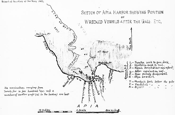 "Sketch of Apia Harbor showing Position of Wrecked Vessels after the Gale, Etc." Sketch map by Rear Admiral Lewis A. Kimberly, contained in his personal journal of the Apia Hurricane. Original caption: “Photo # NH 42141 Sketch chart of Apia Harbor, from RAdm. L.A. Kimberly's journal”